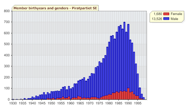 Automatically generated figures of the member count for the Swedish Pirate Party. Displays birth year and gender of members.